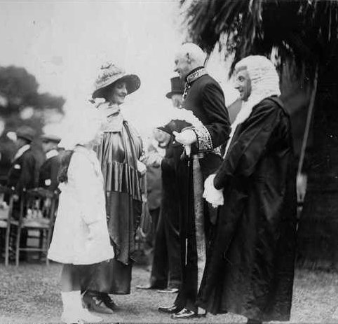 Sir Herbert Angas Parsons (1872-1945) Lady Weigall, wife of the Governor of South Australia attending a function in Adelaide; she is seen with her daughter talking to Sir George Murray and Justice Angas Parsons. Lady Weigall, wife of the Governor of South Australia, accompanied by her daughter Priscilla greeting Sir George Murray, Lieutenant Governor and Justice Angas Parsons at a garden party held in the grounds of Government House, Adelaide.